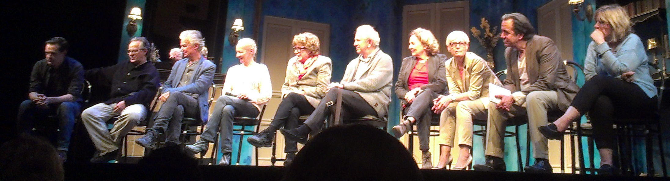 A post-show meeting of the cast (Diane Lavallée, France Castel, Carl Béchard, Jacques Girard, Danièle Lorain, Marie-Hélène Dufort, Denise Filiatrault, Marco Ramirez, Jonathan Michaud & Daniel Delisle) for "Monsieur Chassé" inside the Rideau Vert theatre photographed in Montreal, Quebec, Canada.